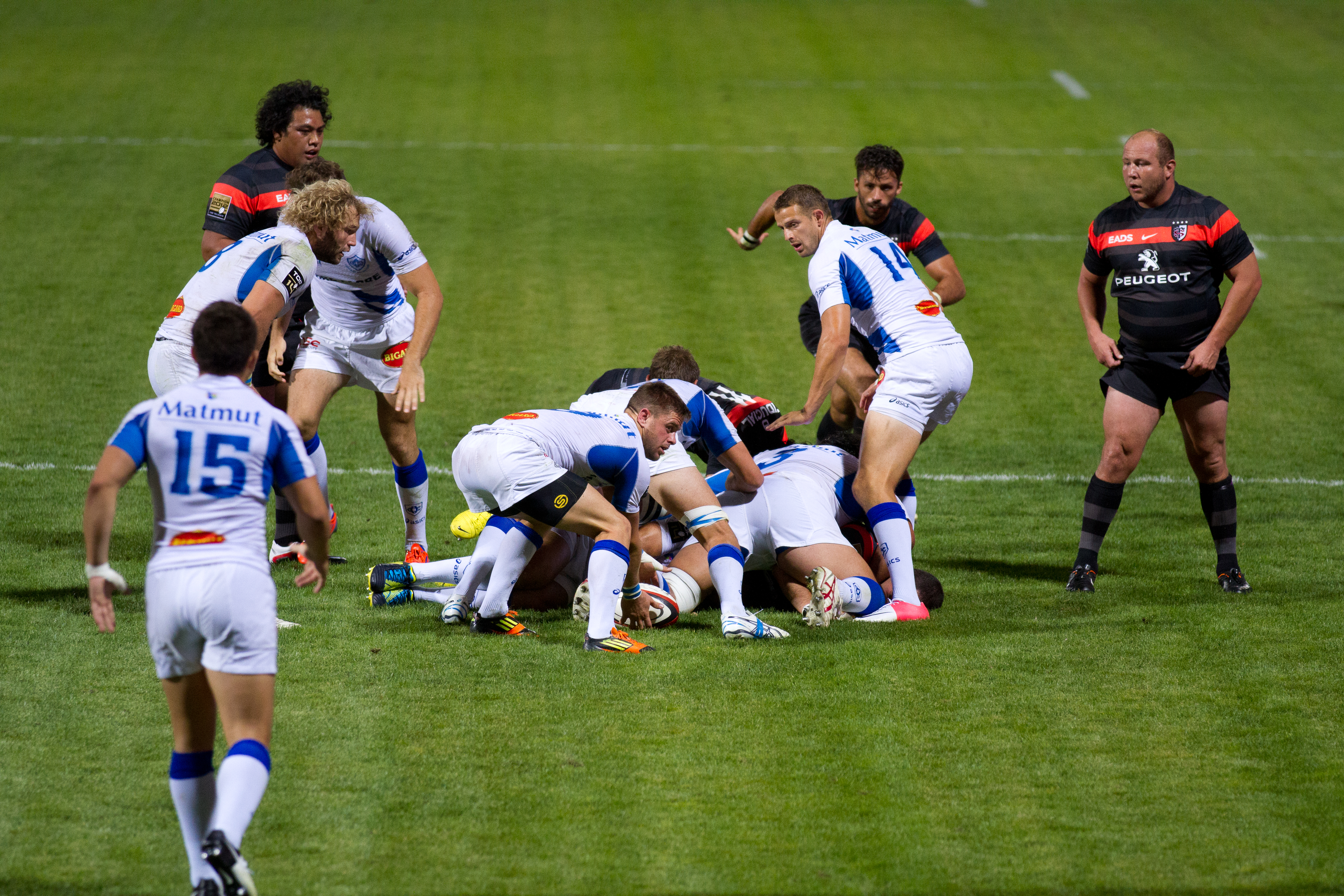 Top 14 — 17 August 2012, Stade Ernest-Wallon. Match between: Stade toulousain — Castres olympique